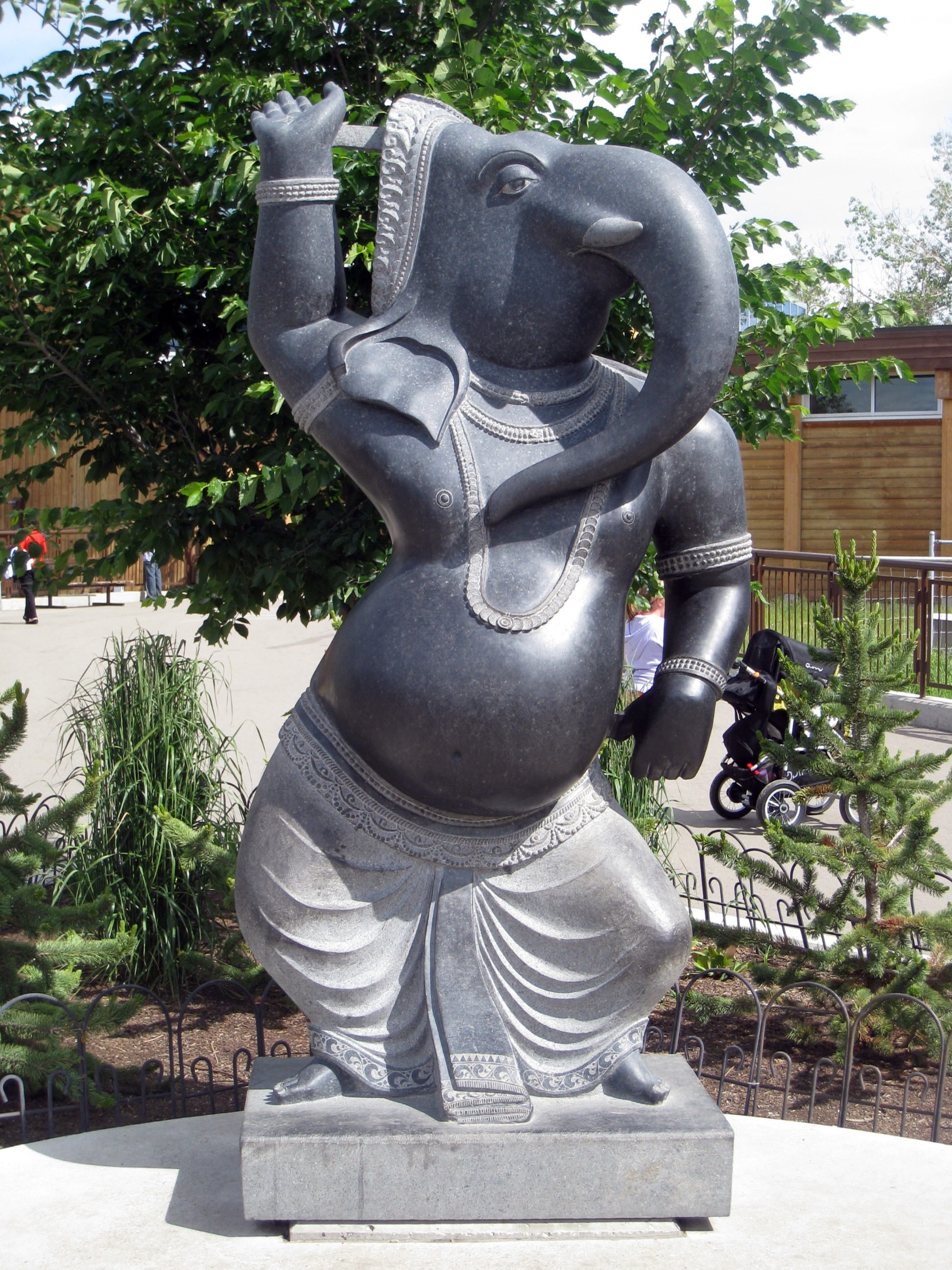 Ganesh (a.k.a. Ganesha) at the Calgary Zoo, Calgary, Alberta. Information plaque reads: "Historically, zoos have displayed wildlife from a science-based perspective. Modern zoos now recognize that animals are revered as important symbols in many societies. This representation of Ganesh is recognizable throughout Asia, where our elephants originate, and is a stunning example of how animals form a common cultural bond among people from diverse regions of the world."